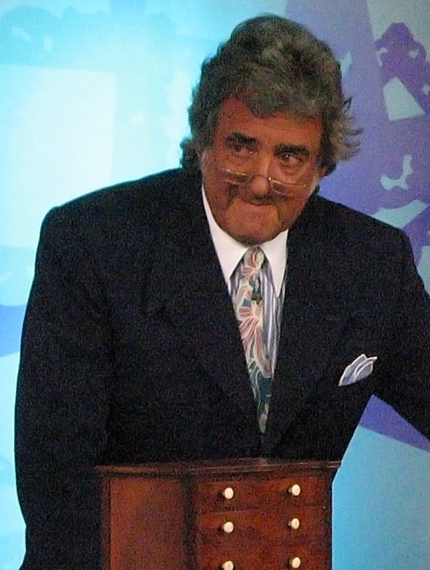 David Dickinson at Lancaster Town Hall